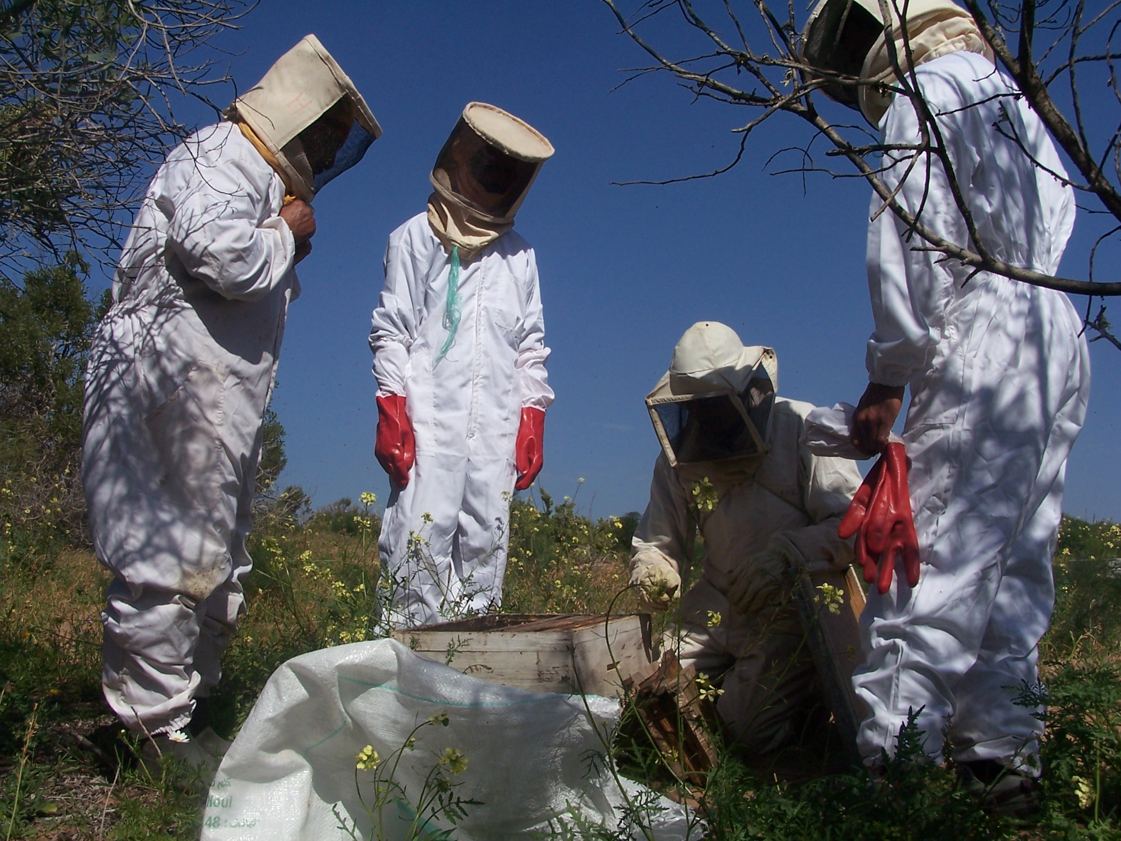 Beekeeping at Souss-Massa National Park, Morocco, in the frame of cooperation for rural development